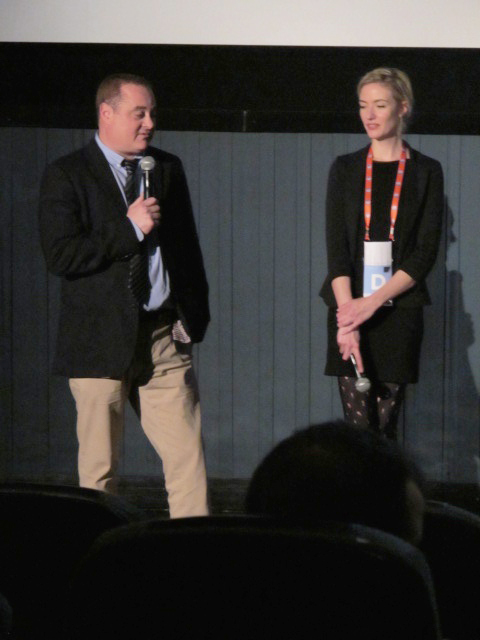 Douglas Tirola, the director introducing the New York premiere of his documentary film Drunk Stoned Brilliant Dead at the Tribeca Film Festival, 16 April 2015.